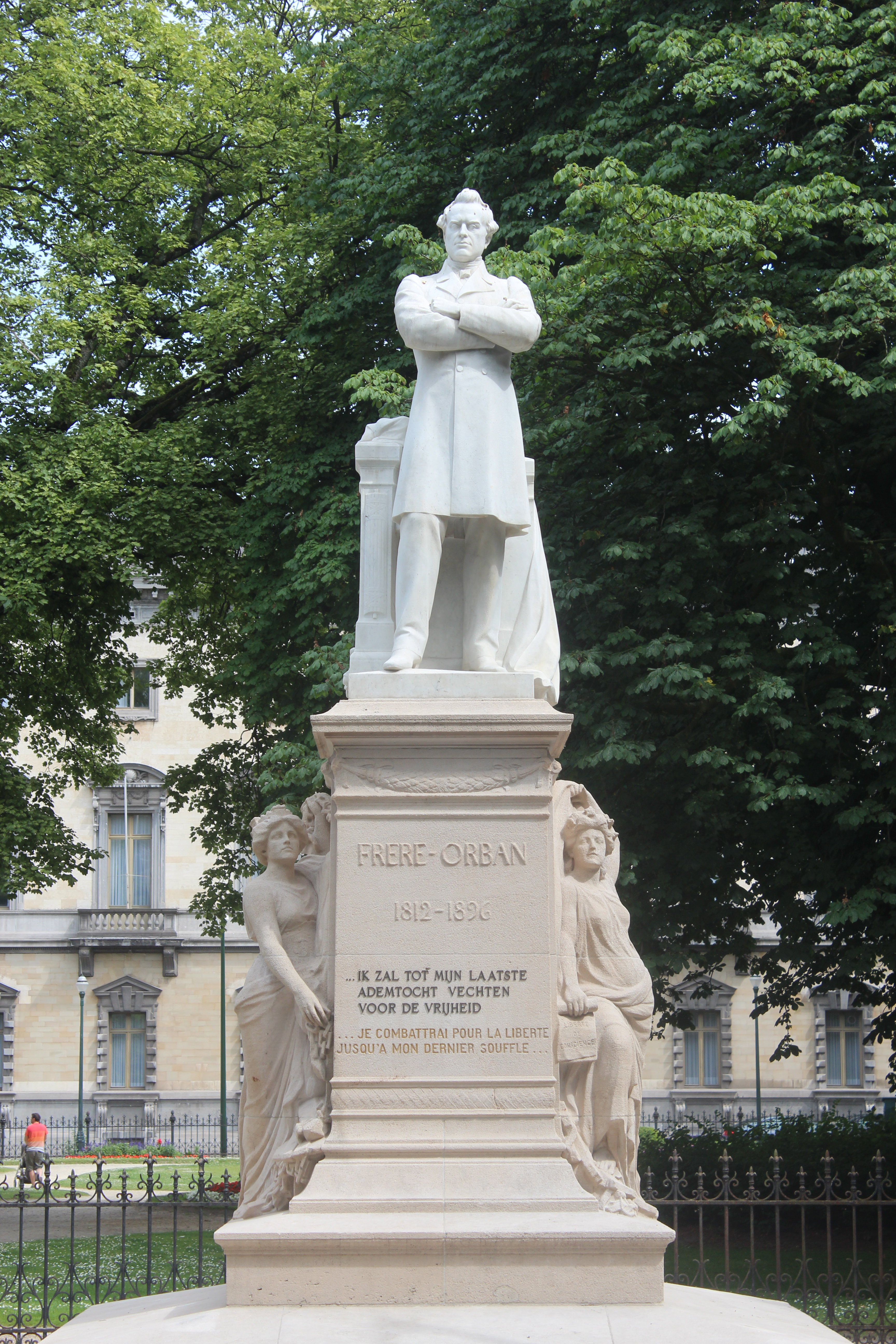 Monument of Walthère Frère-Orban on Square Frère-Orban in Brussels (from 1910). Author: Charles Samuel (1862- 1938) Text on the plinth: FRERE-OBAN 1812 - 1896 ...JE COMBATTRAI POUR LA LIBERTE JUSQU'À MON DERNIER SOUFFLE... Carved on to a scroll presented by one of the ladies at the side: LIBERTE DE CONSCIENCE